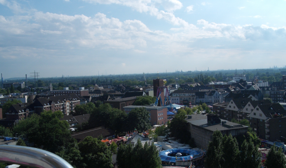 the inner city of Oberhausen-Sterkrade as seen from a high wheel